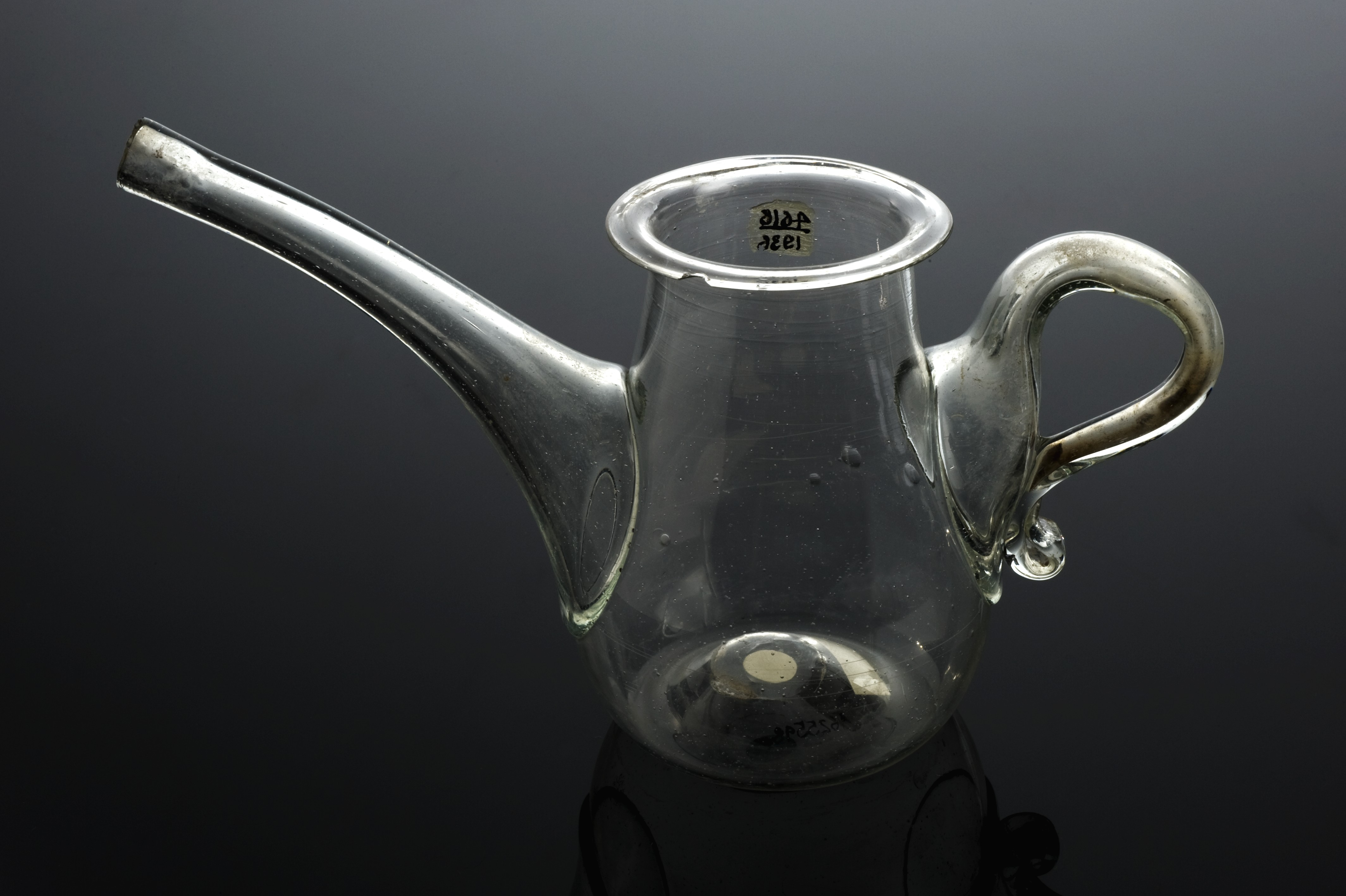 Made from glass, this cup was used to feed liquid foods to patients who were unable to sit upright. This is a rare example of a glass feeding cup as few survive in such good condition. Unfortunately it has no markings to help up identify how it was made – it was probably blown into a mould. Feeding cups were used by the patient’s nurse or carer. maker: Unknown maker Place made: Europe Wellcome Images Keywords: feeding cup; Nursing